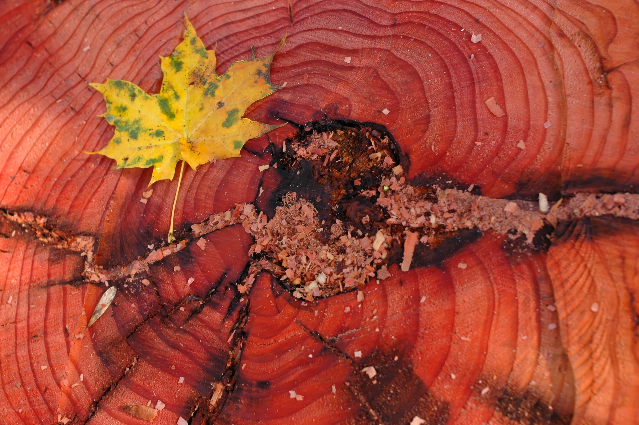 Bole of a freshly felled cultivated sequoiadendron giganteum (aka redwood or giant sequoia) about 100 years old, Auvergne, France.